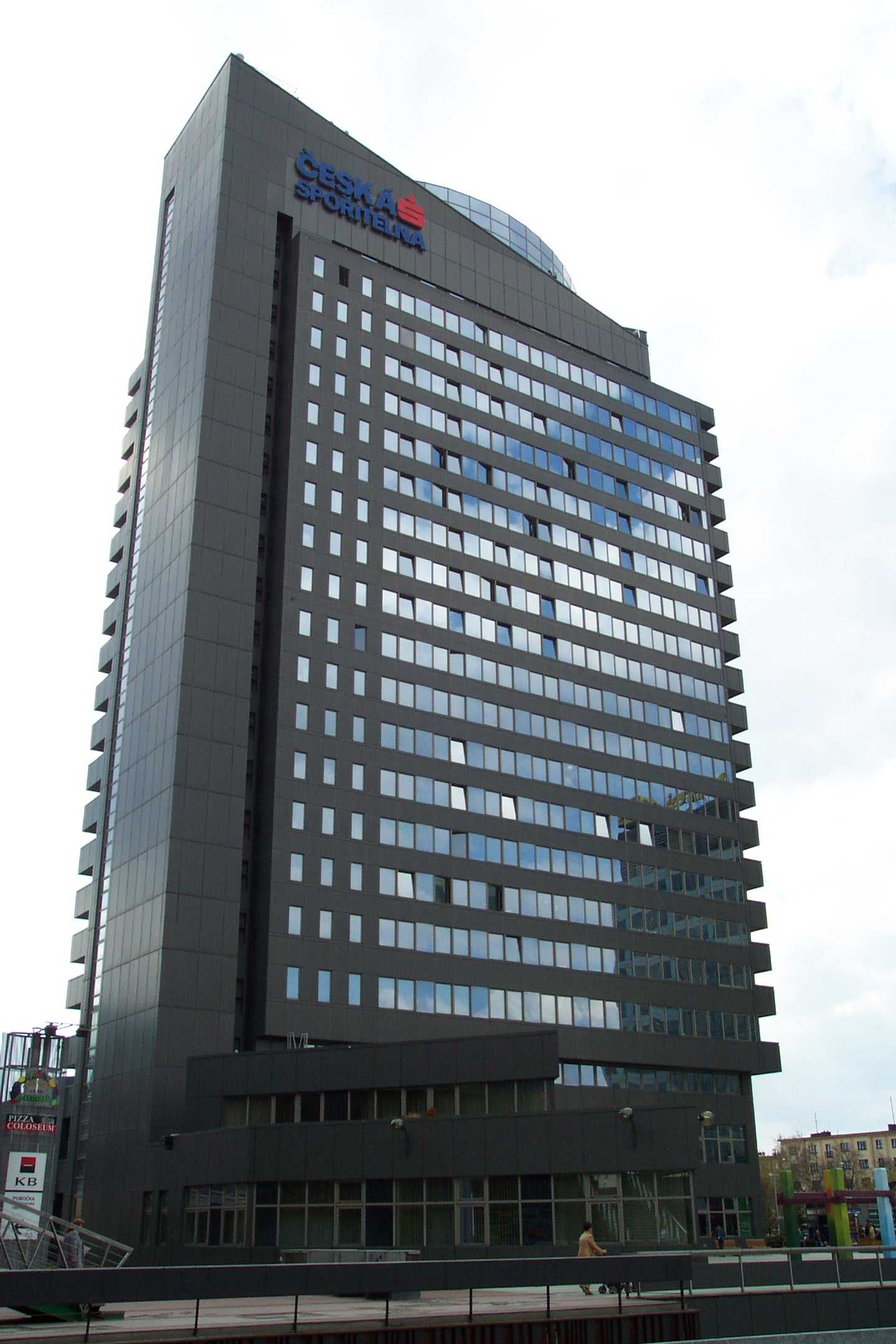 Building of Česká spořitelna bank in Budějovická street